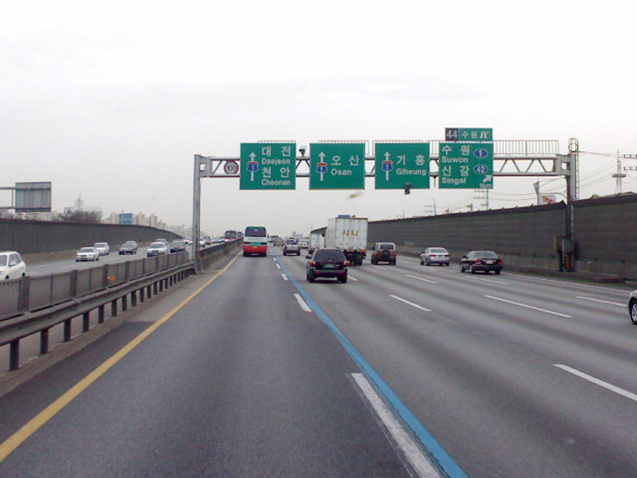 Gyeongbu Expressway Suwon IC front 1km(Direction for Busan, 2009)